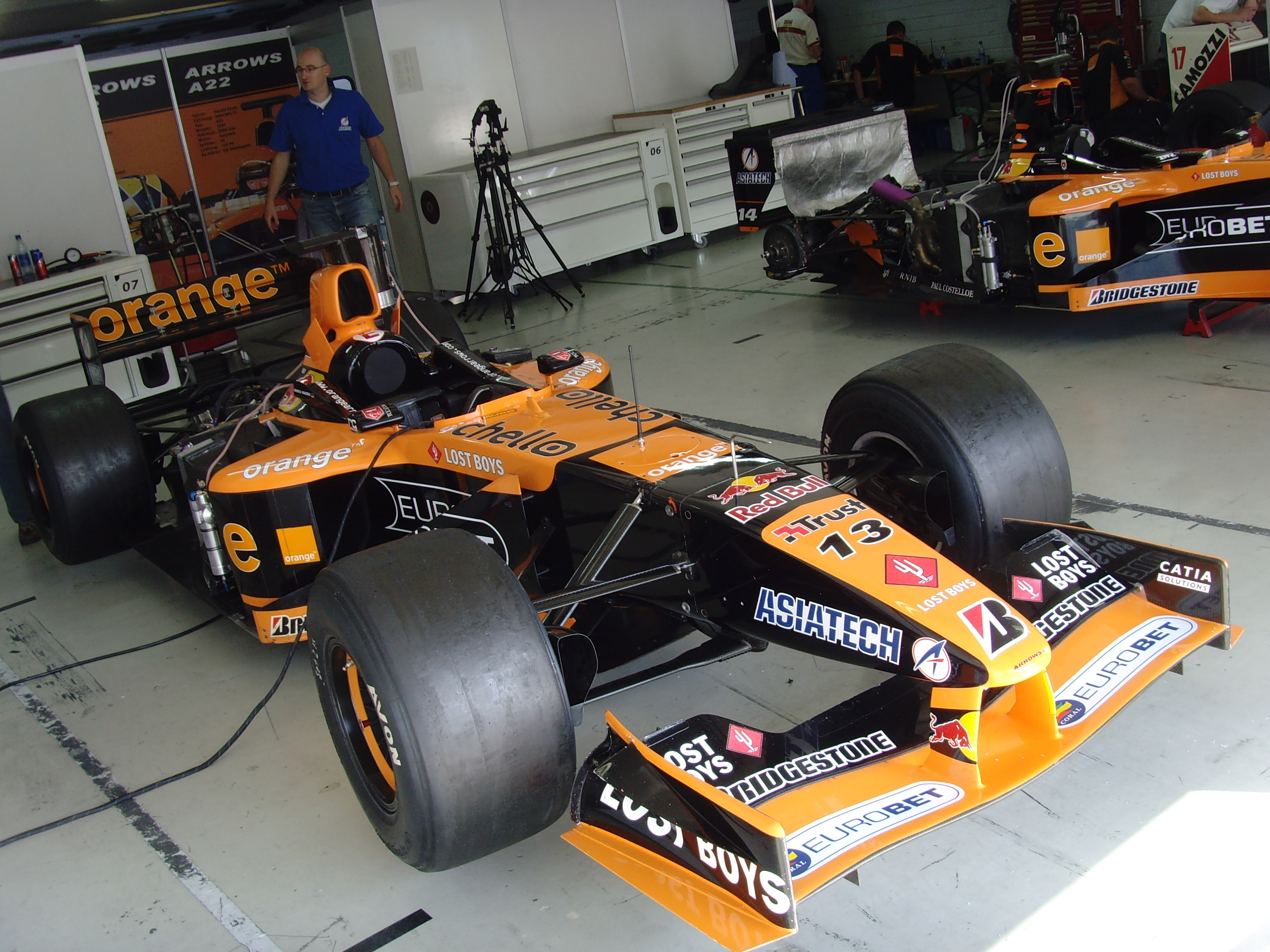 The Arrows A22 Formula One car at the Hockenheim Classics in 2009